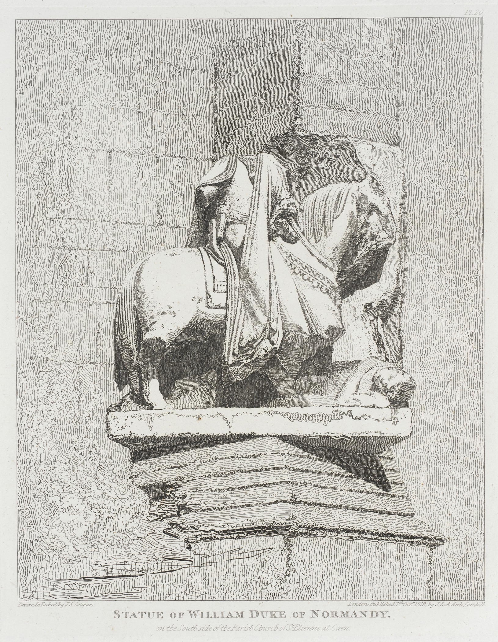 England, 1822 Prints; etchings Etching Sheet: 16 5/8 x 11 1/2 in. (42.23 x 29.21 cm); composition: 9 1/8 x 7 15/16 in. (23.18 x 20.16 cm) Mary Stansbury Ruiz Bequest (M.88.91.477) Prints and Drawings